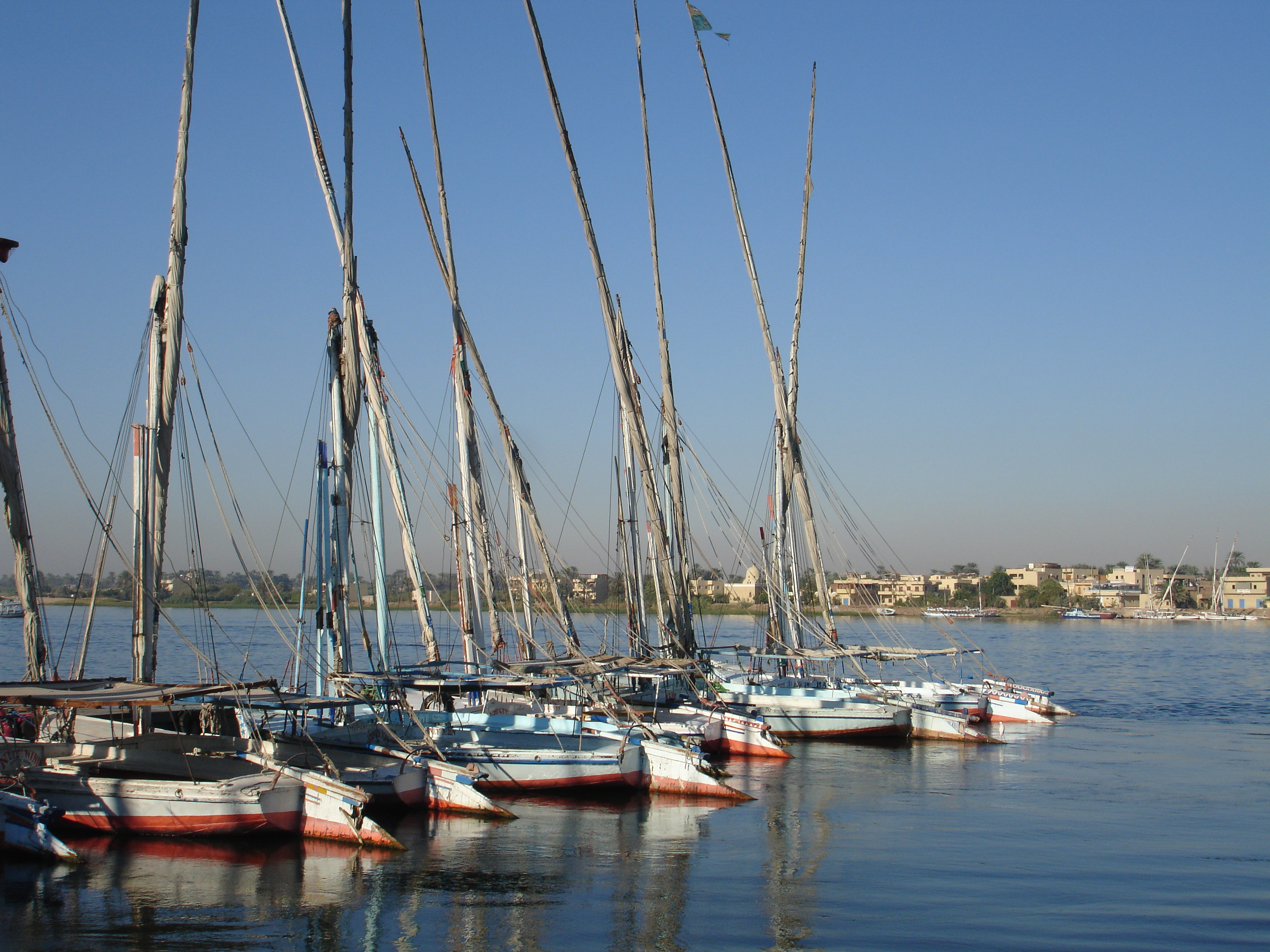 Sailboats on the Nile river, in Luxor Egypt